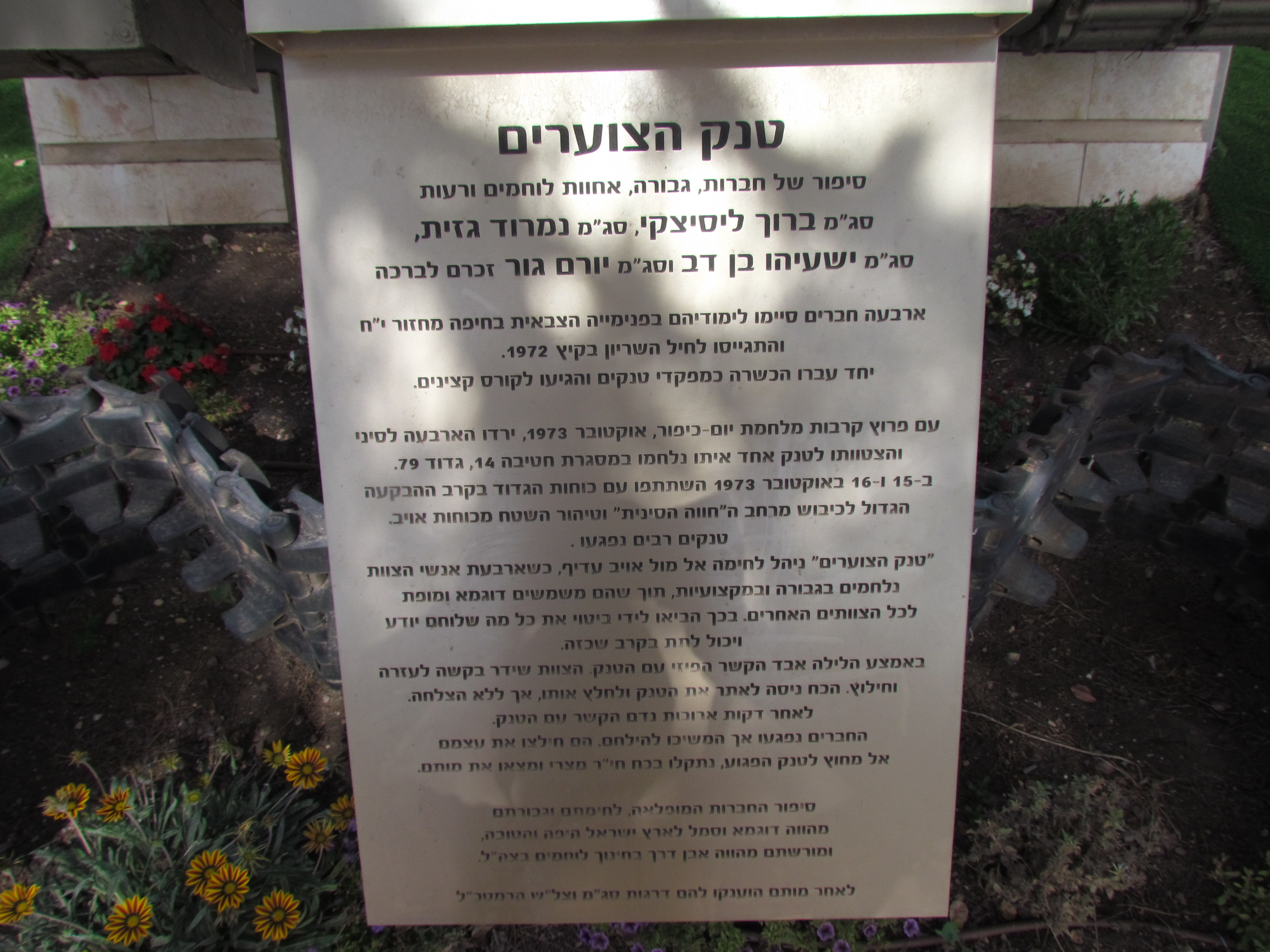 The memorial plate which explains the tank's story. Аҧсшәа: לוחית המידע שבסמוך לטנק.